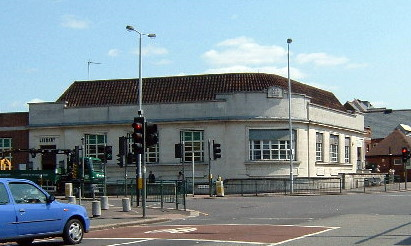 Wood Street Library. Right near the bottom of the grid square looking south across Forest Road toward Wood Street, The White building on the corner is the Library, the brick building to the right of the library is a public convenience, the larger building behind that is a school.